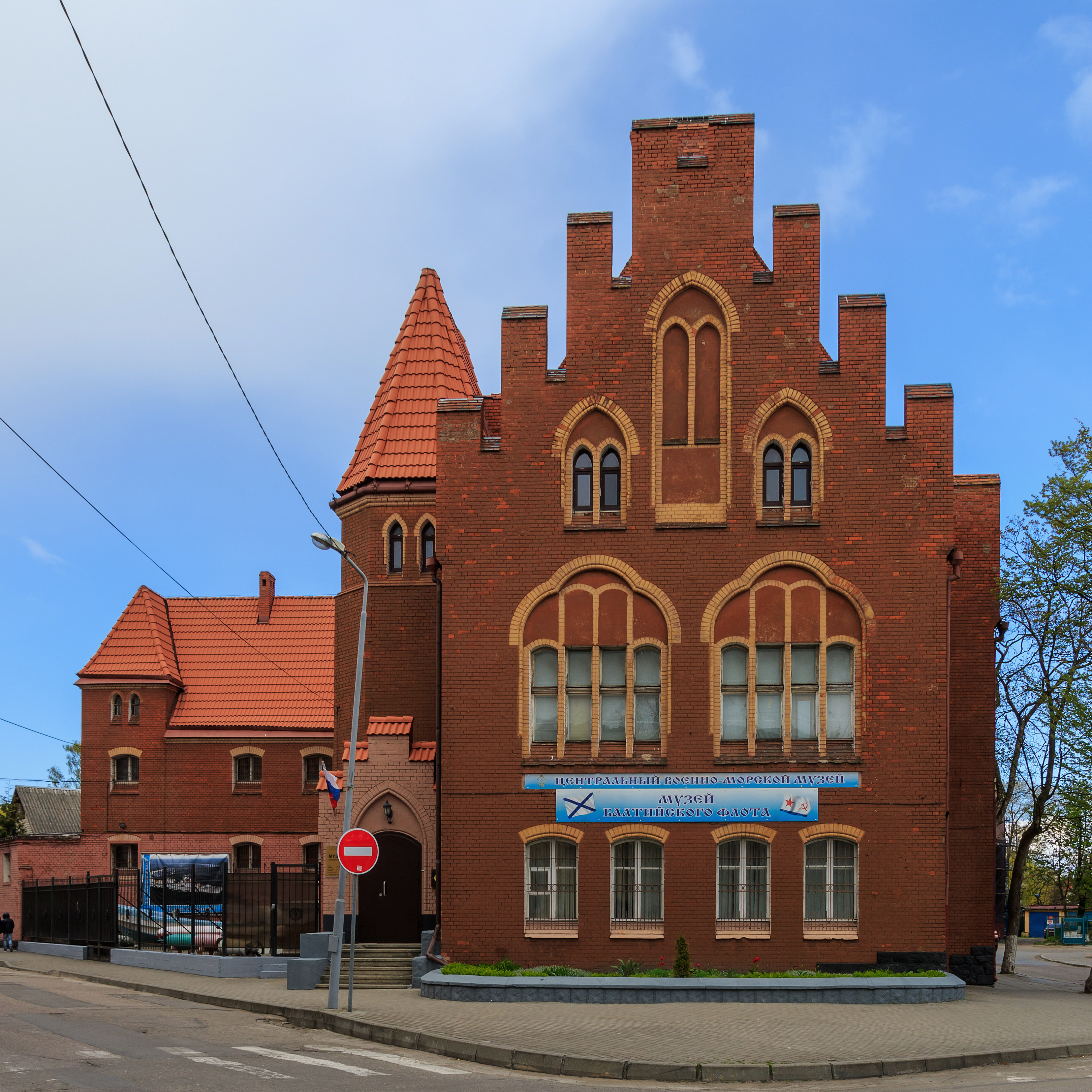 Baltic Fleet Museum in Baltiysk formerly Pillau / Kaliningrad Oblast (Russia).